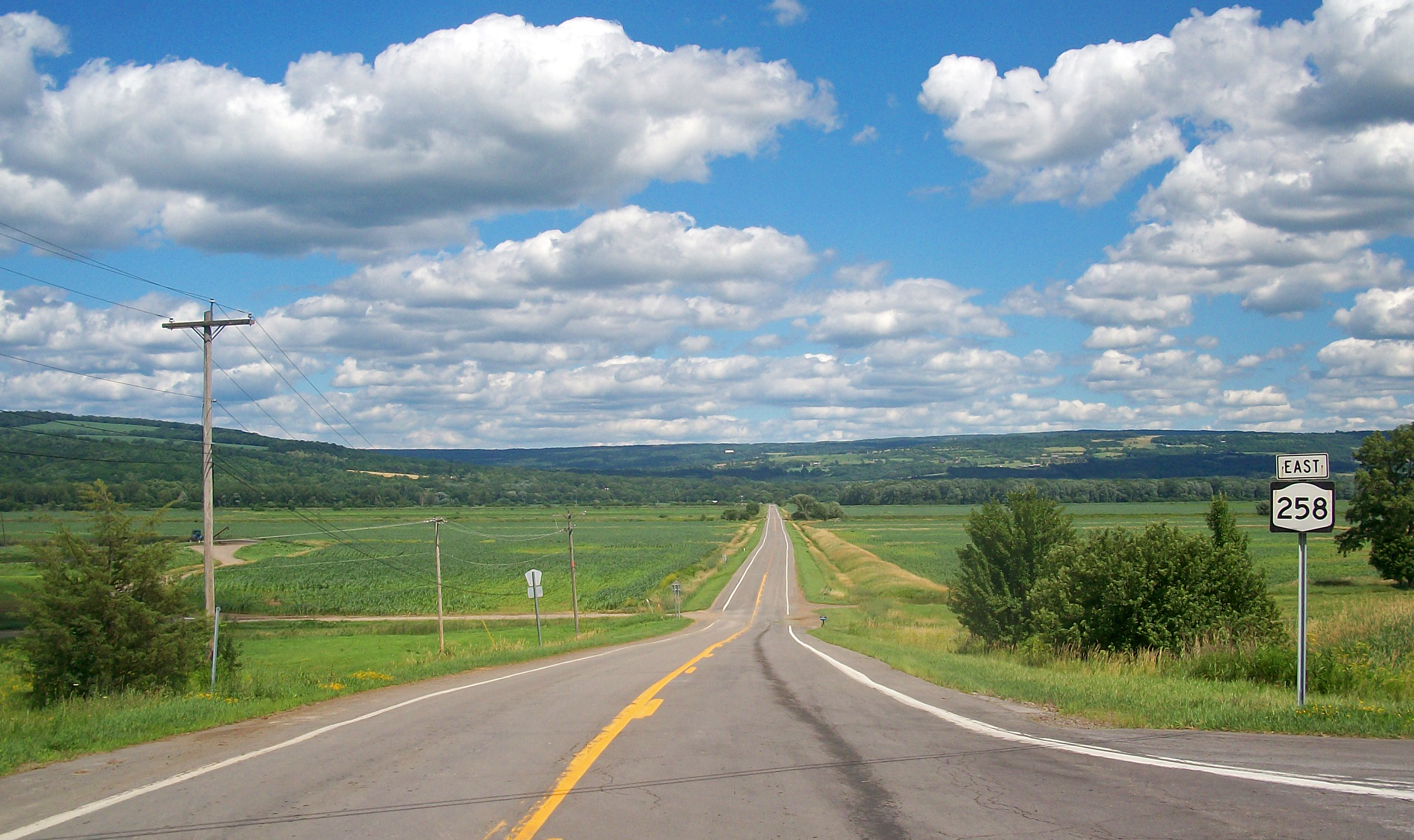 View west along NY 258 across the Flats from what is now its western terminus at NY 36 just south of I-390. Reverse angle of this image; taken from intersection here